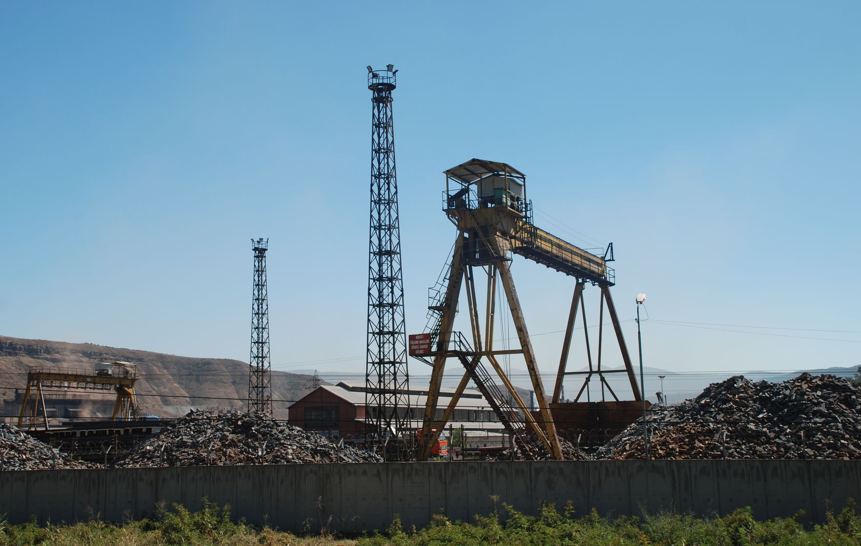 Karabük, Turkey, Kardemir Inc.